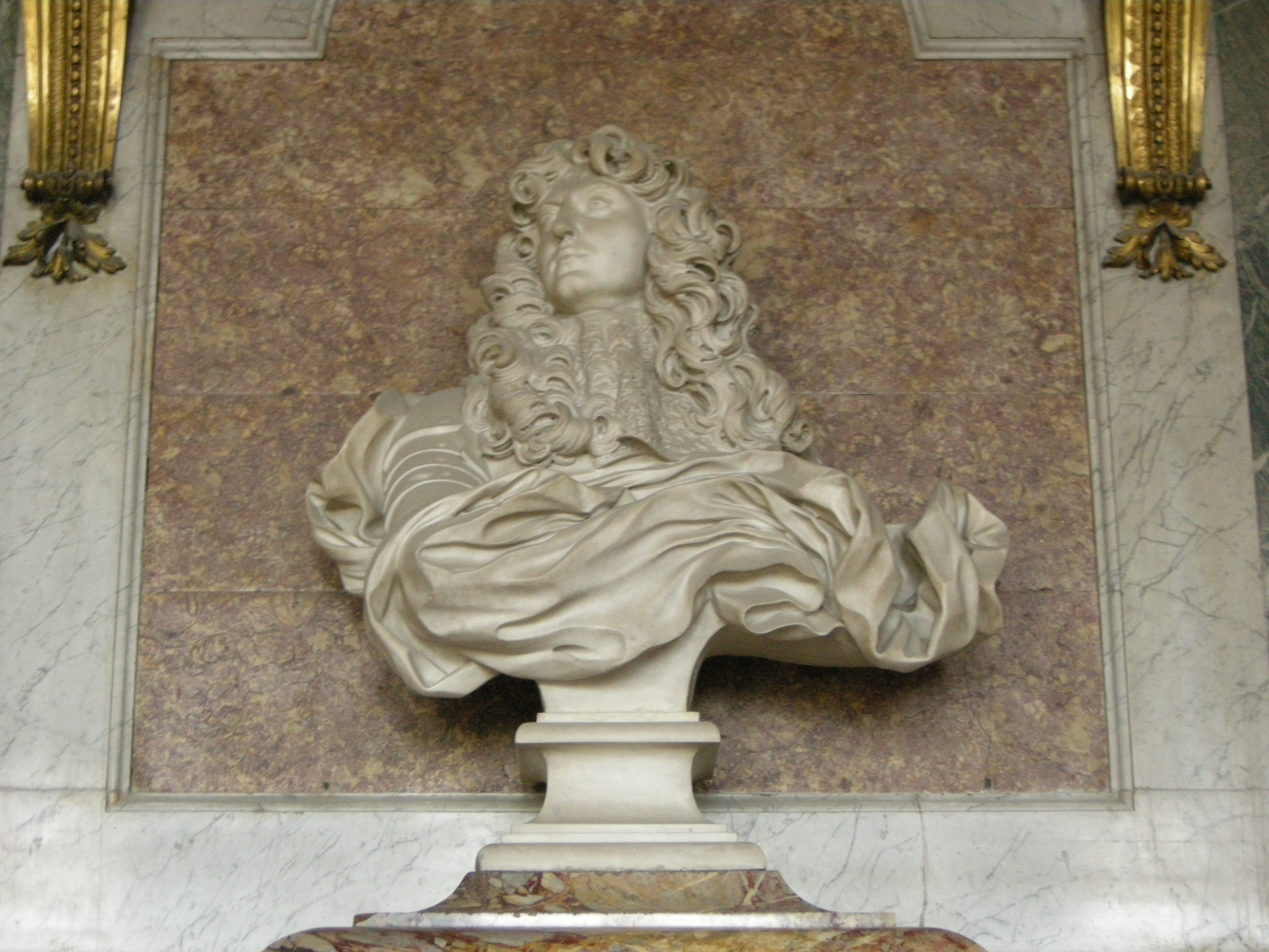 Bust of Louis XIV of France